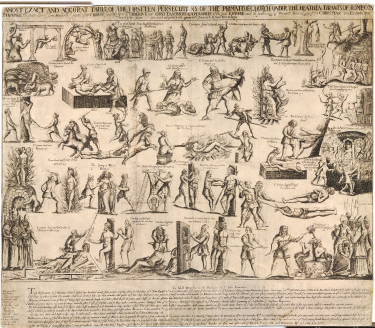 "A Most Exact and Accurat Table of the Firstten Persecutions of the Primative Church under the Heathen Tirants of Rome," illustration of depictions of cruel punishments meted out to the early Christians. The illustration accompanied the 1641 edition of John Foxe's "Acts and Monuments" ("Book of Martyrs") between pages 44 and 45. Inscribed on verso in graphite is the notation: "Copy from a Bolognese print, about 1590." Engraving. 504 mm x 583 mm. Courtesy of the British Museum, London.